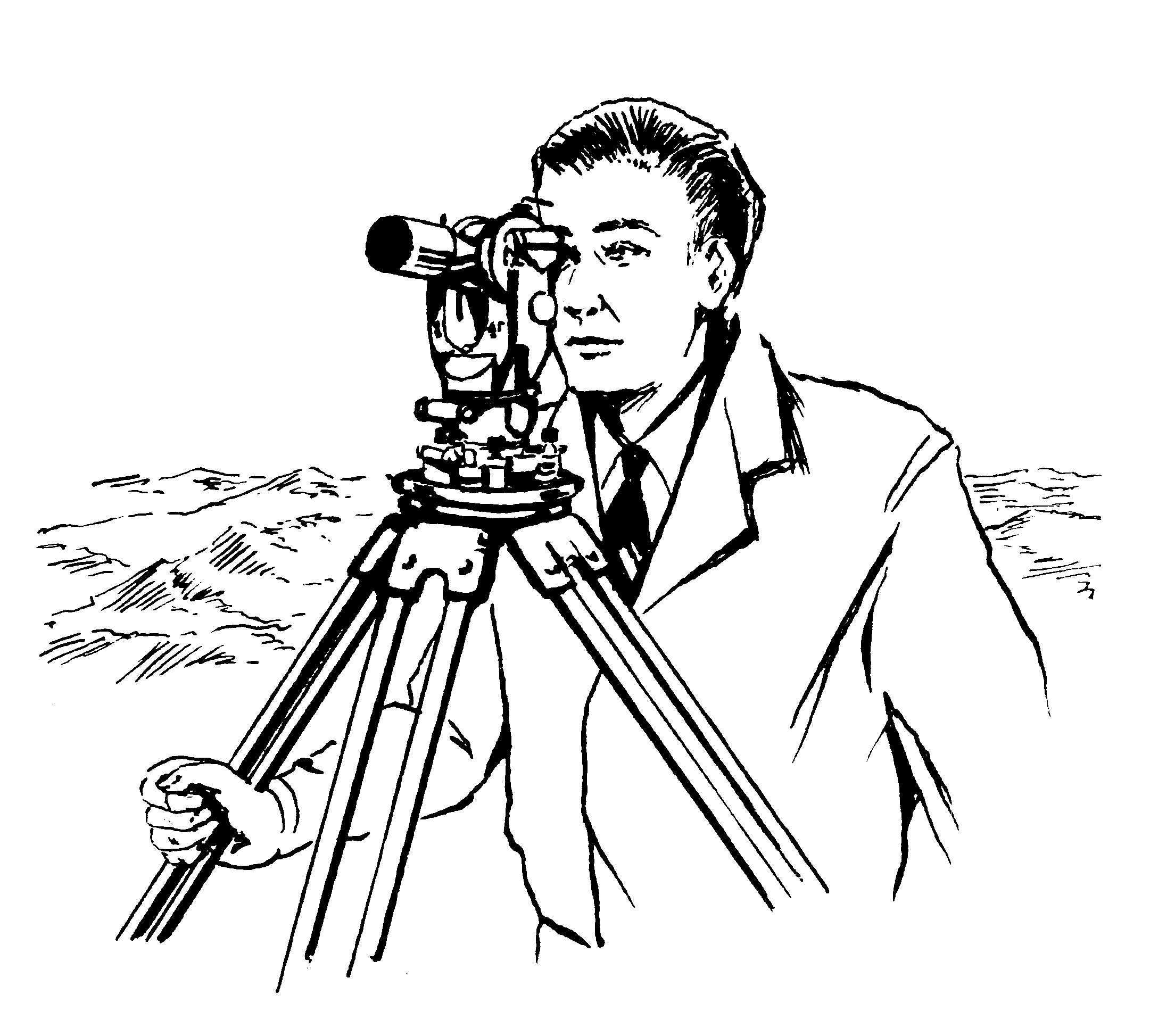 Line art drawing of an altazimuth mount.